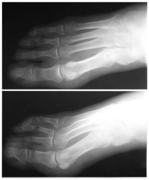 Congenital four-fingered foot (x-ray)